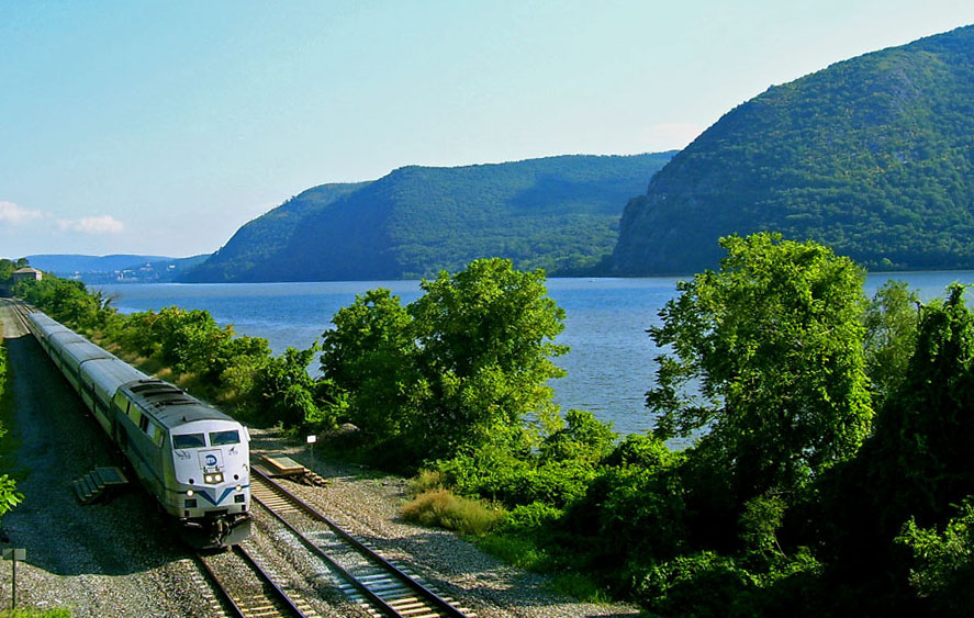 A Metro-North Hudson Line train passes the Breakneck Ridge station